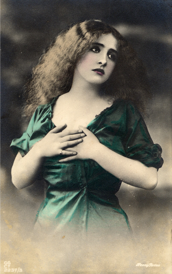 The german actress Henny Porten (1890-1960)